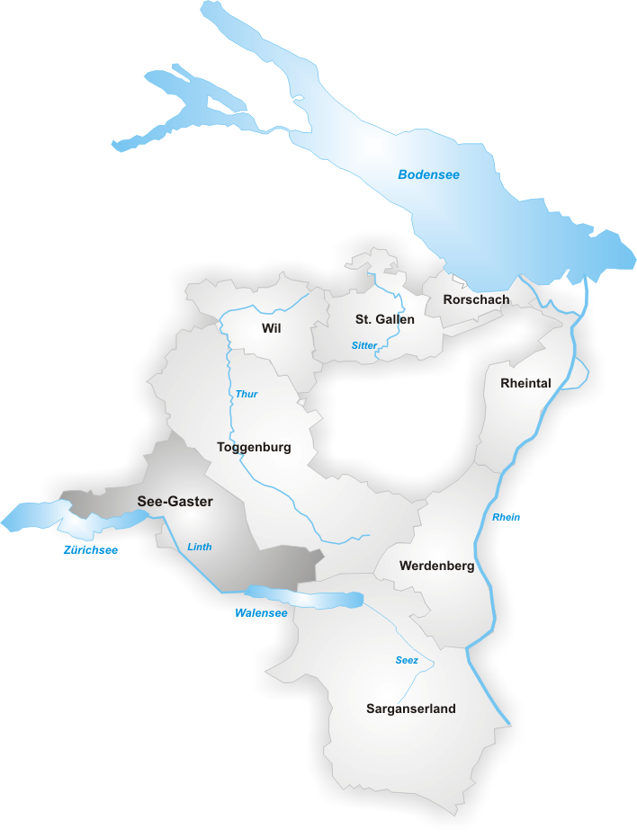 District See-Gaster